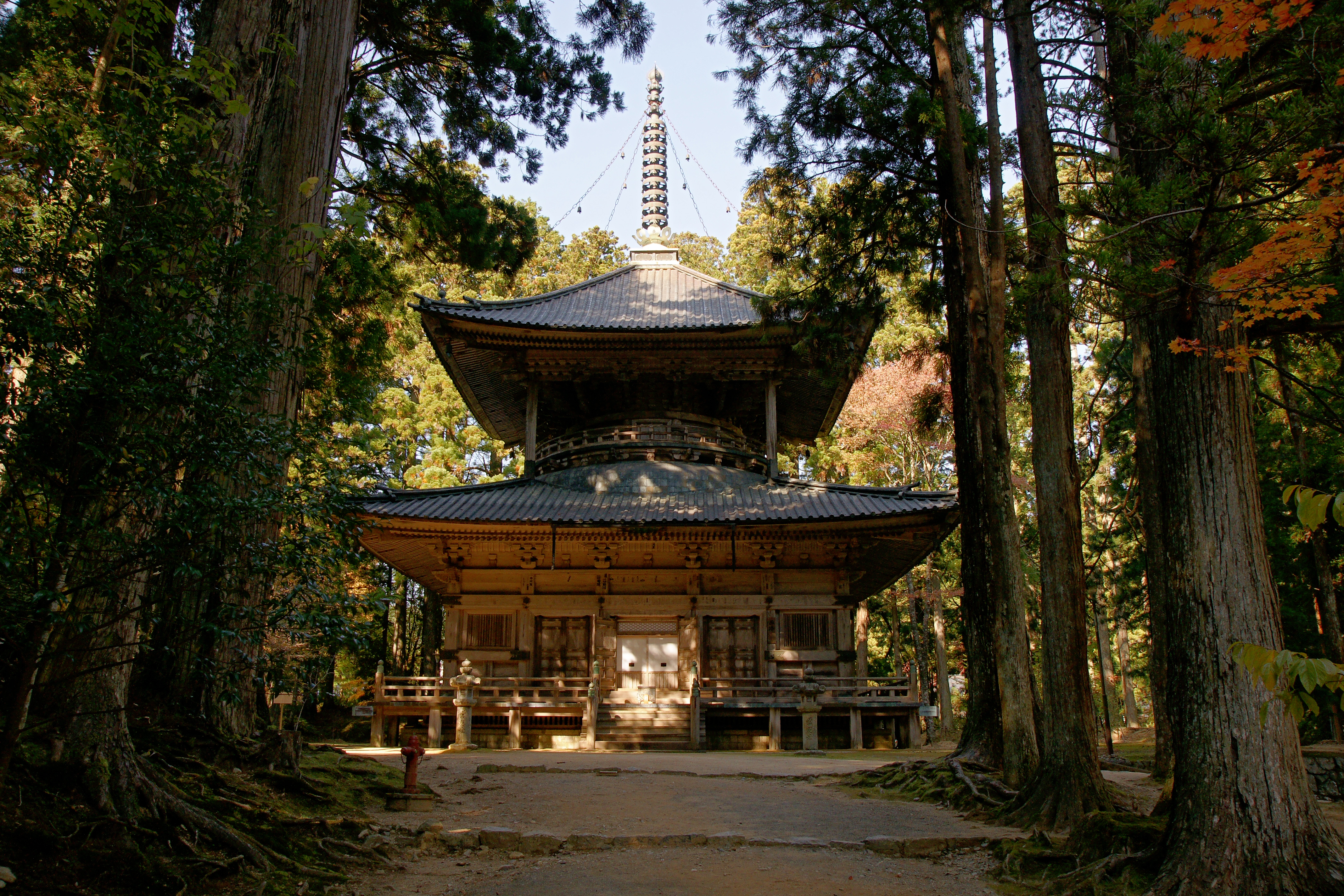 Danjōgaran in Mount Kōya, Wakayama prefecture, Japan.